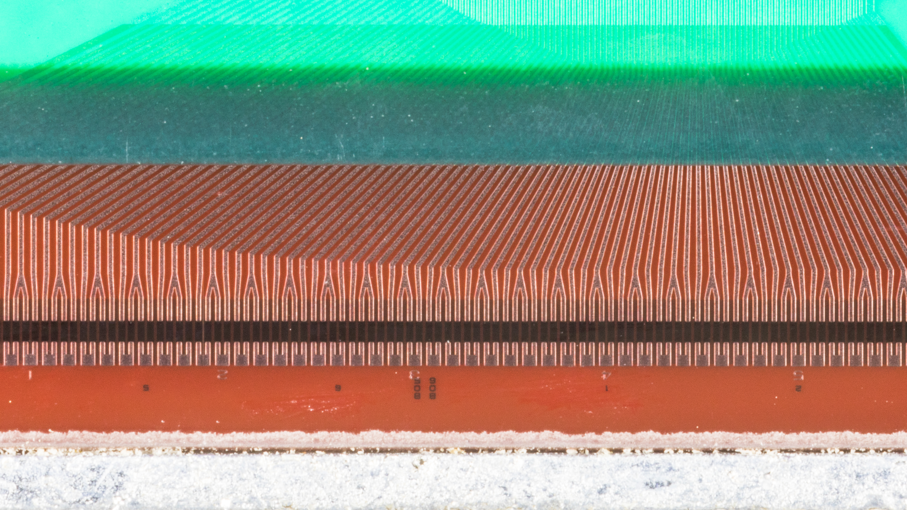 SII LTP251B-192 - Thermal head